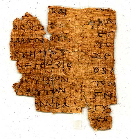 small fragment of Papyrus with text of John 19:8-11; 13-15 (recto)